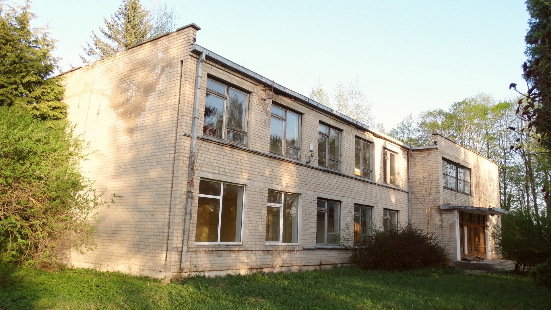 Former school, Beinorava, Radviliškis district, Lithuania